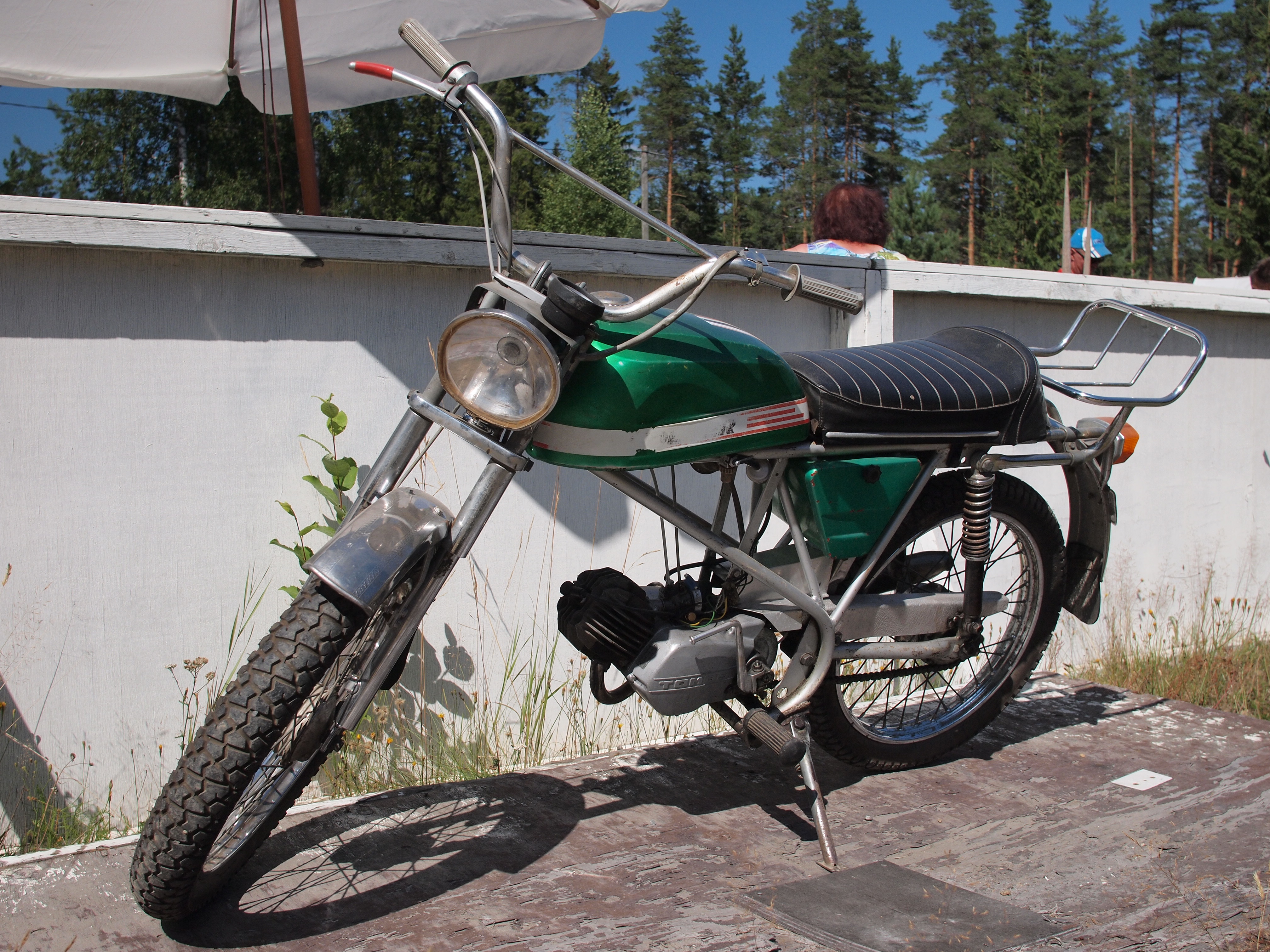 Solifer SM moped of either 1974 or 1975.